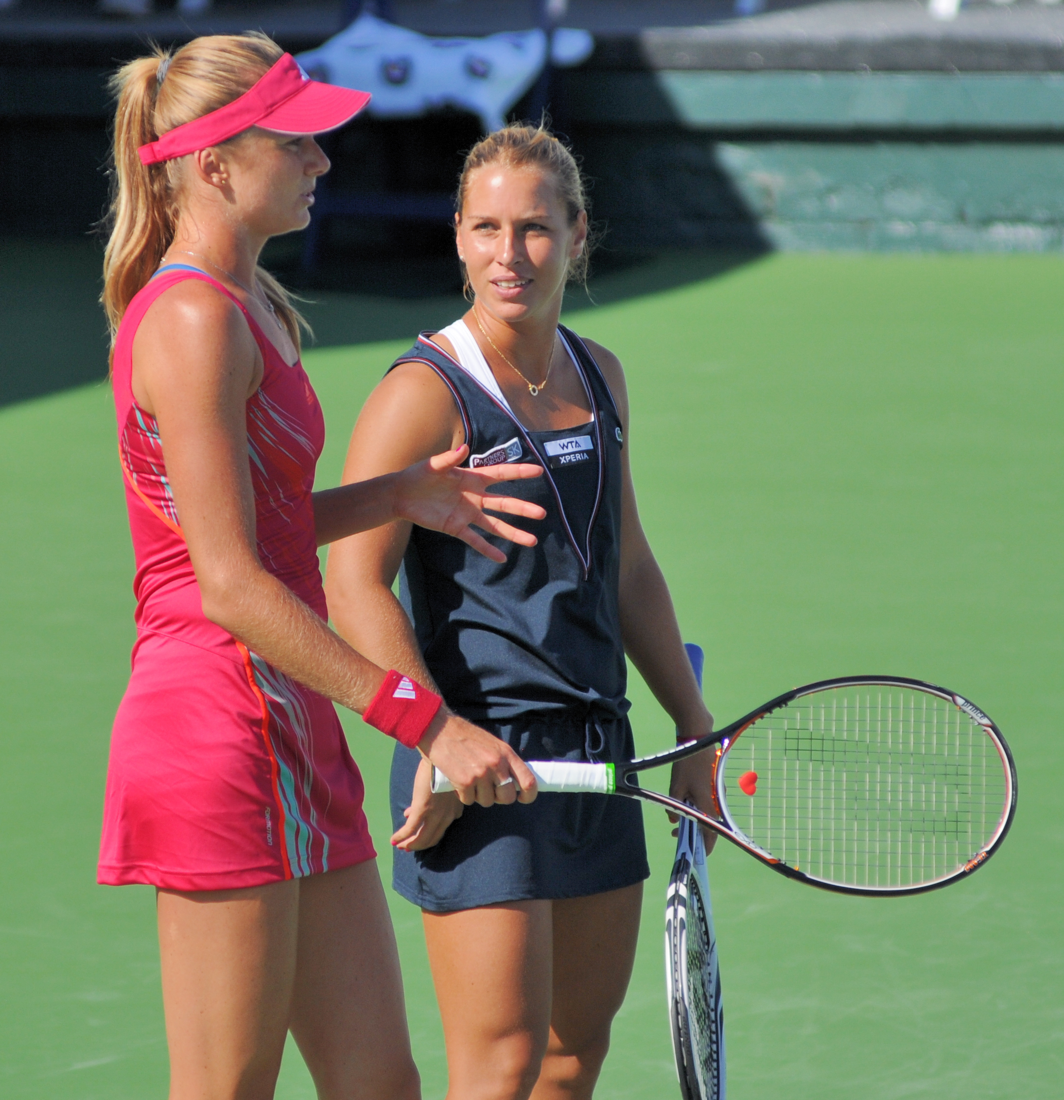 Mercury Insurance Open 2012